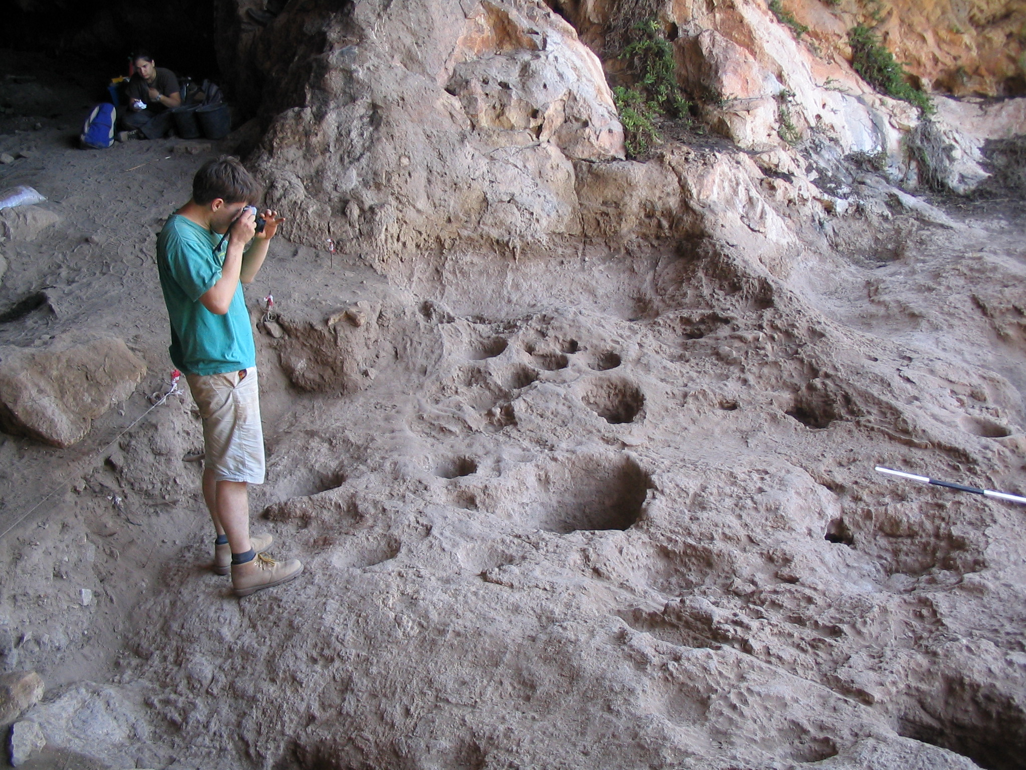 Natufian bedrock mortars in Raqefet Cave, Mount Carmel, Israel